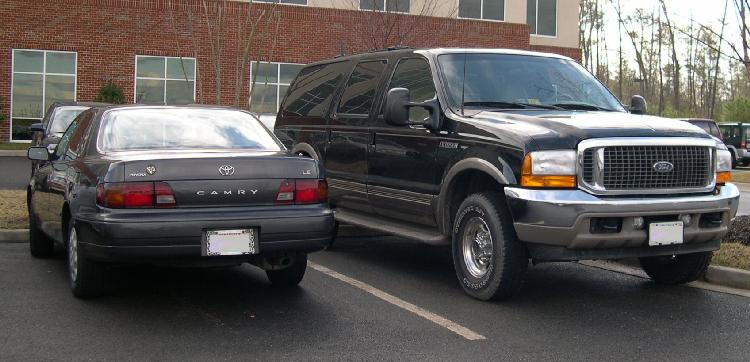 Toyota Camry (left) and Ford Excursion (right).